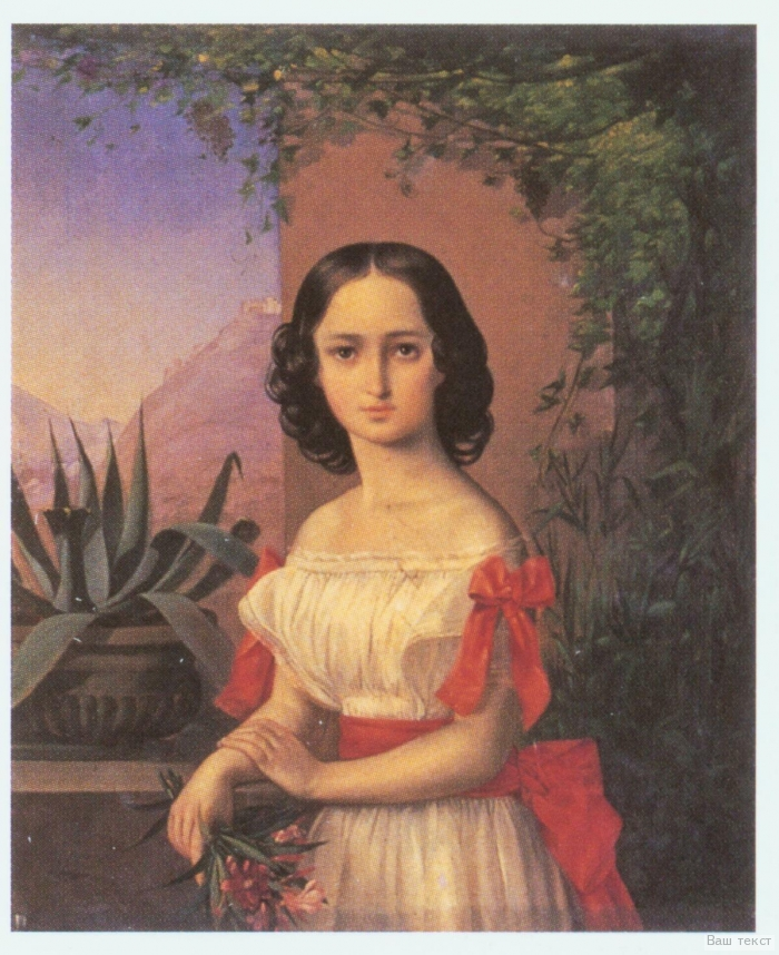 Portrait of Elizaveta Volkonskaya. Painting in Russian Museum, Saint-Petersburg